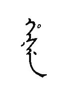 This is a manchu character of the name Hešen